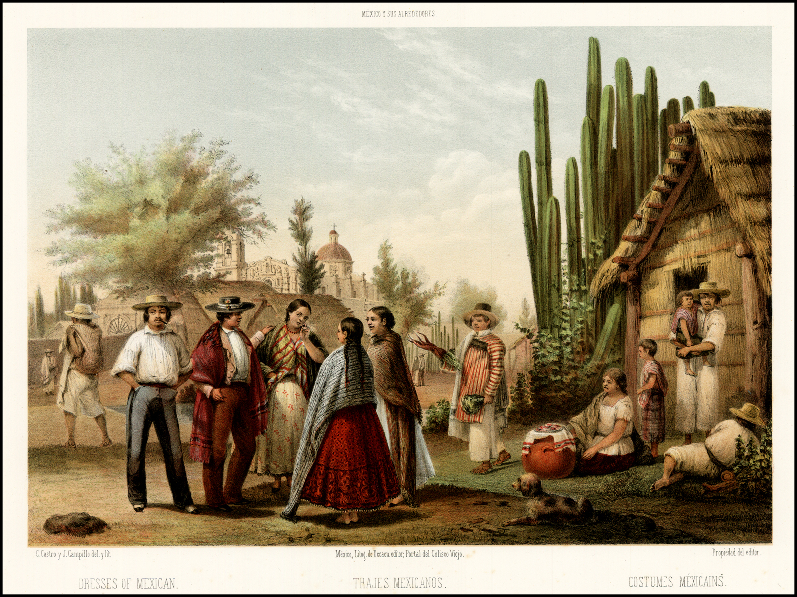 Clothing of typical Mexicans in a rural scene outside of Mexico City, from Mexico y Sus Alrededores. Coleccion de Monumentos, Trajes y Paisajes Dibujados al Natural y Lithografiados por los Artistas Mexicanos, publiished in Mexico City in 1855-1856.